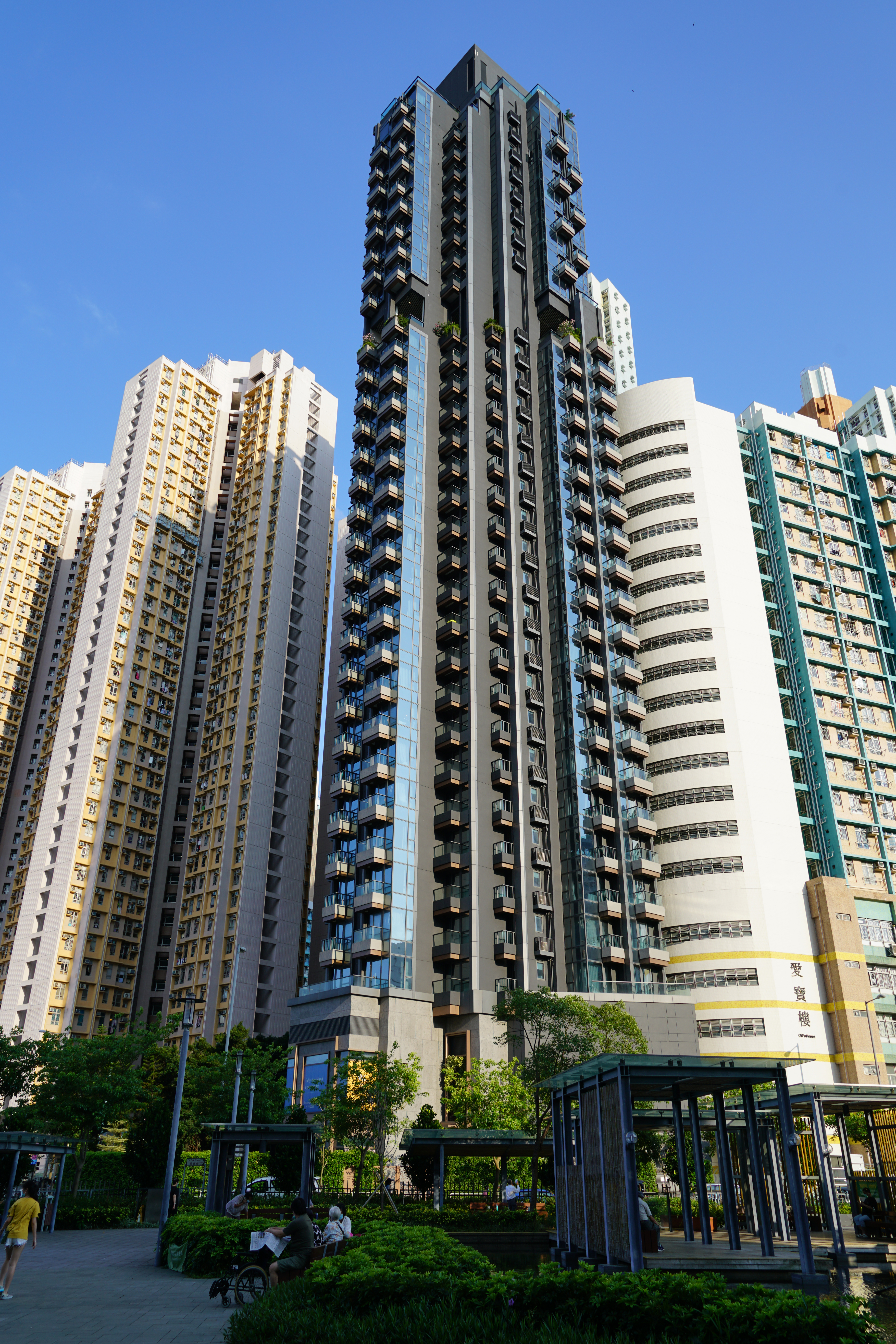 Waterfront Suites